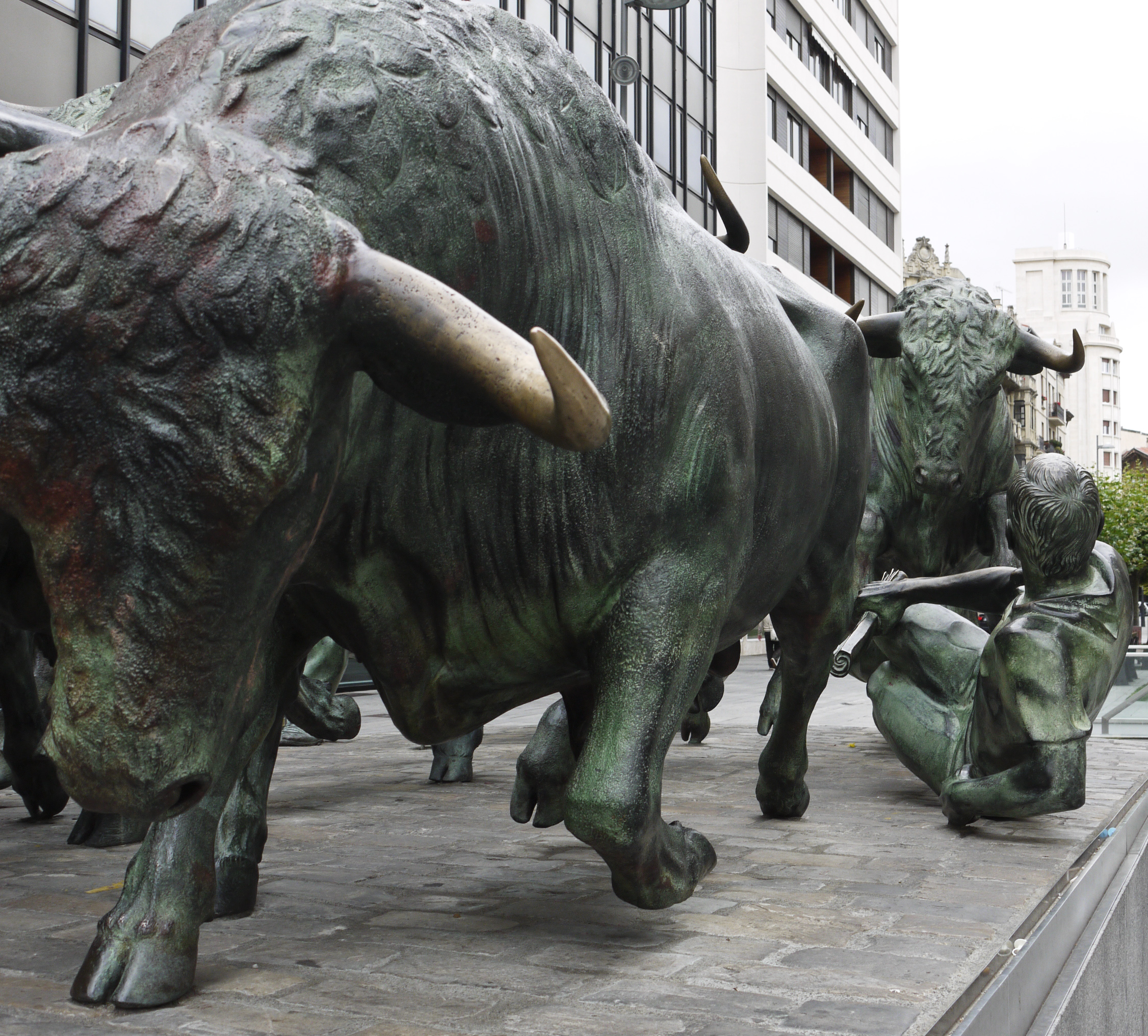 Statue group of the running of the bulls (Encierro), by Rafael Huerta. Pamplona, Spain.